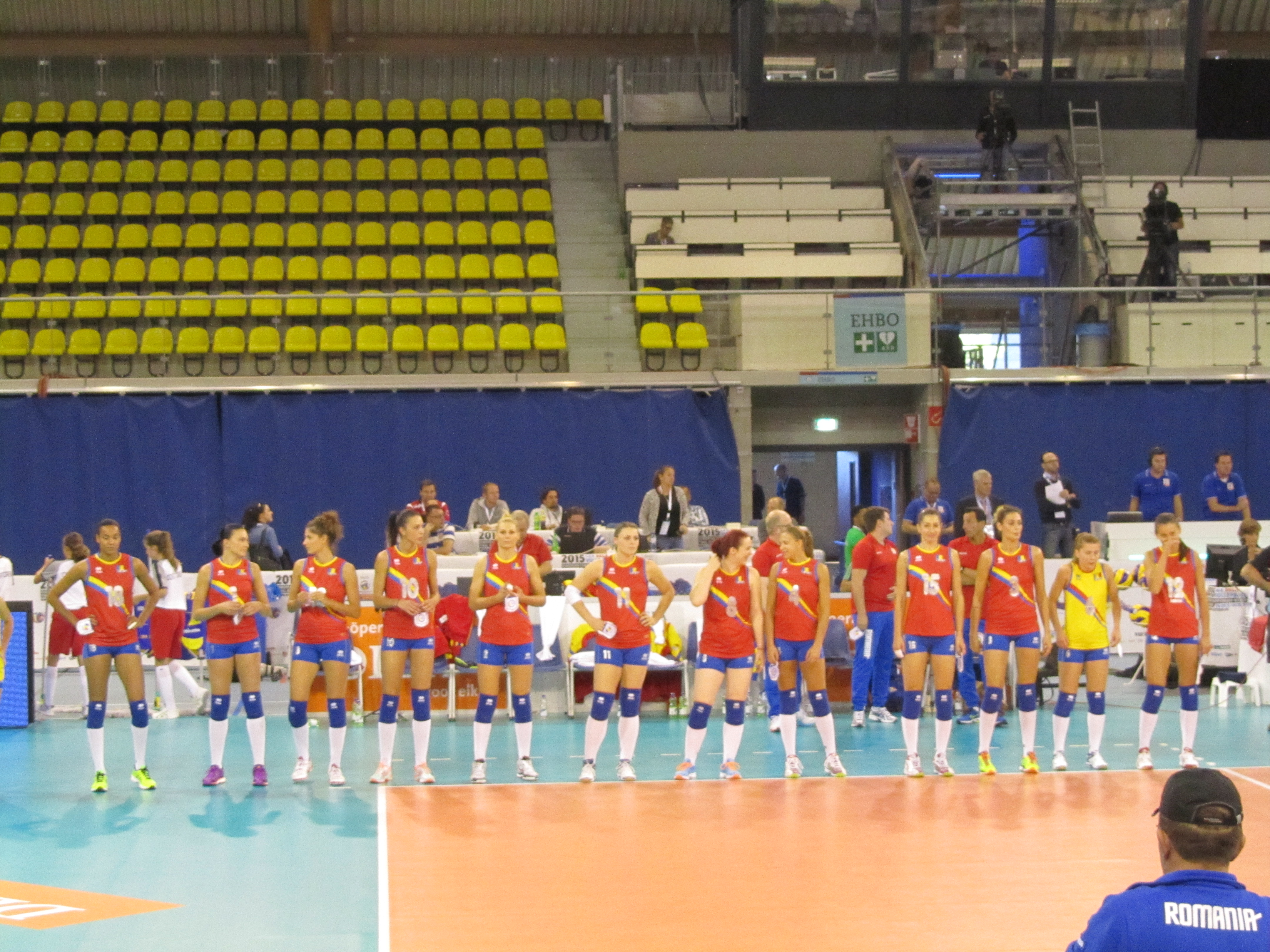 Romania women's national volleyball team before the match vs Germany at the European championship 2015 in Eindhoven (Netherlands)